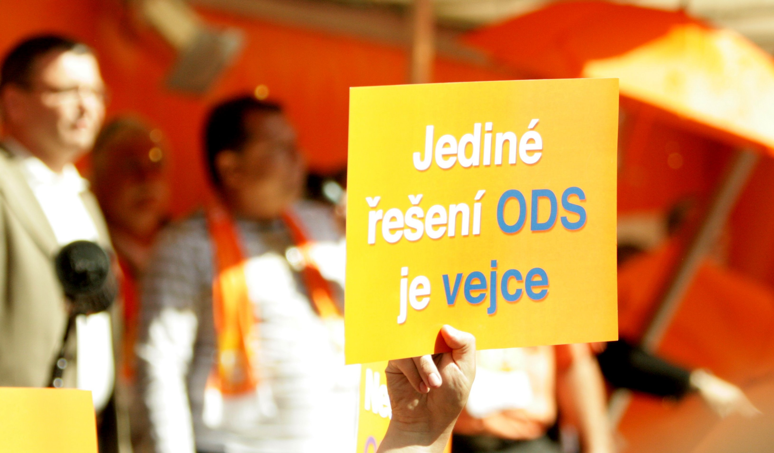 "The only solution of ODS is egg" - supporter of CSSD during rally for European parliament elections 2009, Prague, Andel